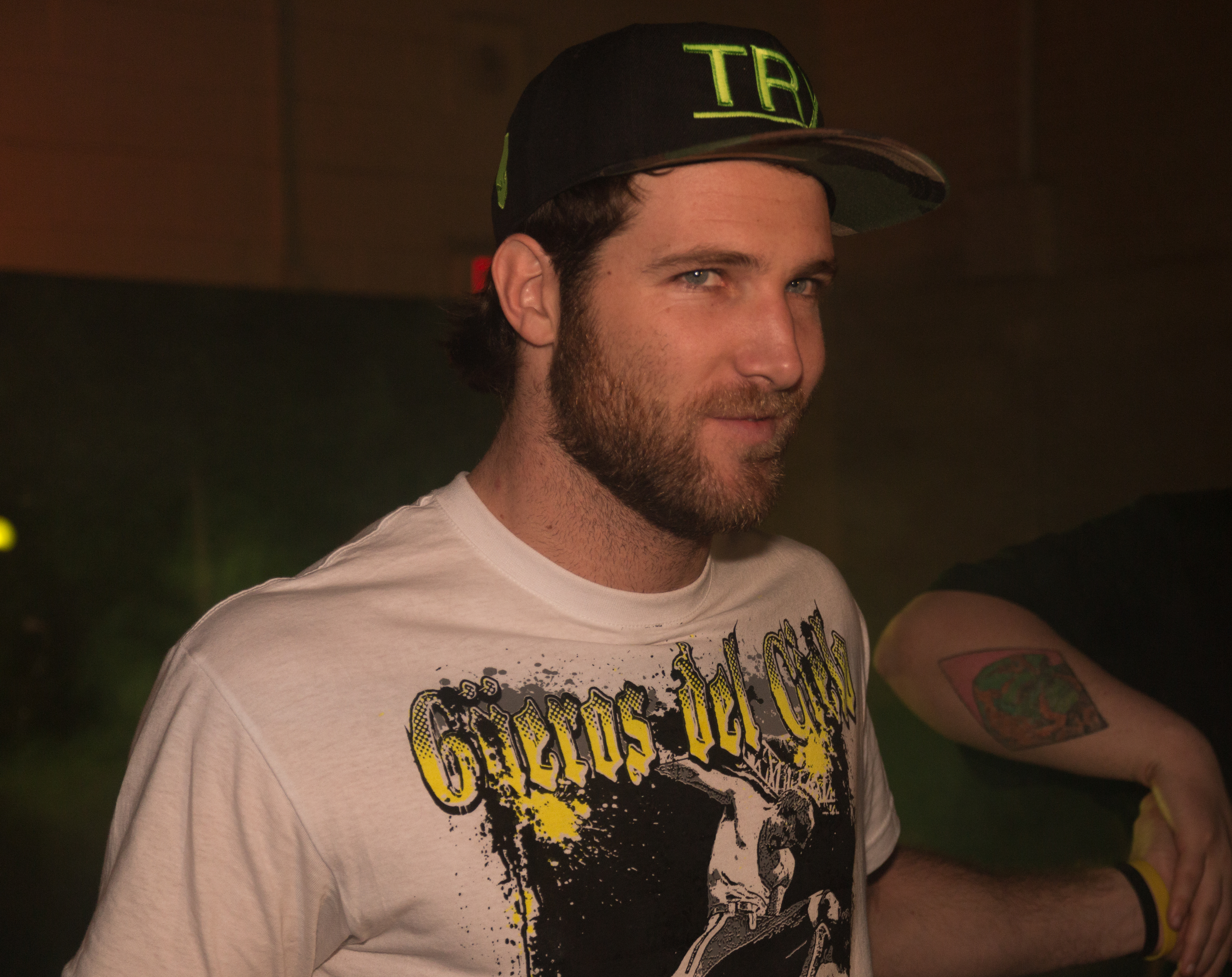 Independent wrestler Angélico making his way to the ring at a Smash Wrestling show in Etobicoke, ON